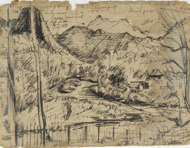 View from the Graveyard looking North, Kanyu River Camp image: A pen and ink drawing of a view looking up to hills and mountains in the distance. A low cane fence runs along the bottom of the composition, and beyond this the land is dense with shribbery and grassland. There appears to be a river running down from the hills in the centre. The sketch is dotted with annotations.